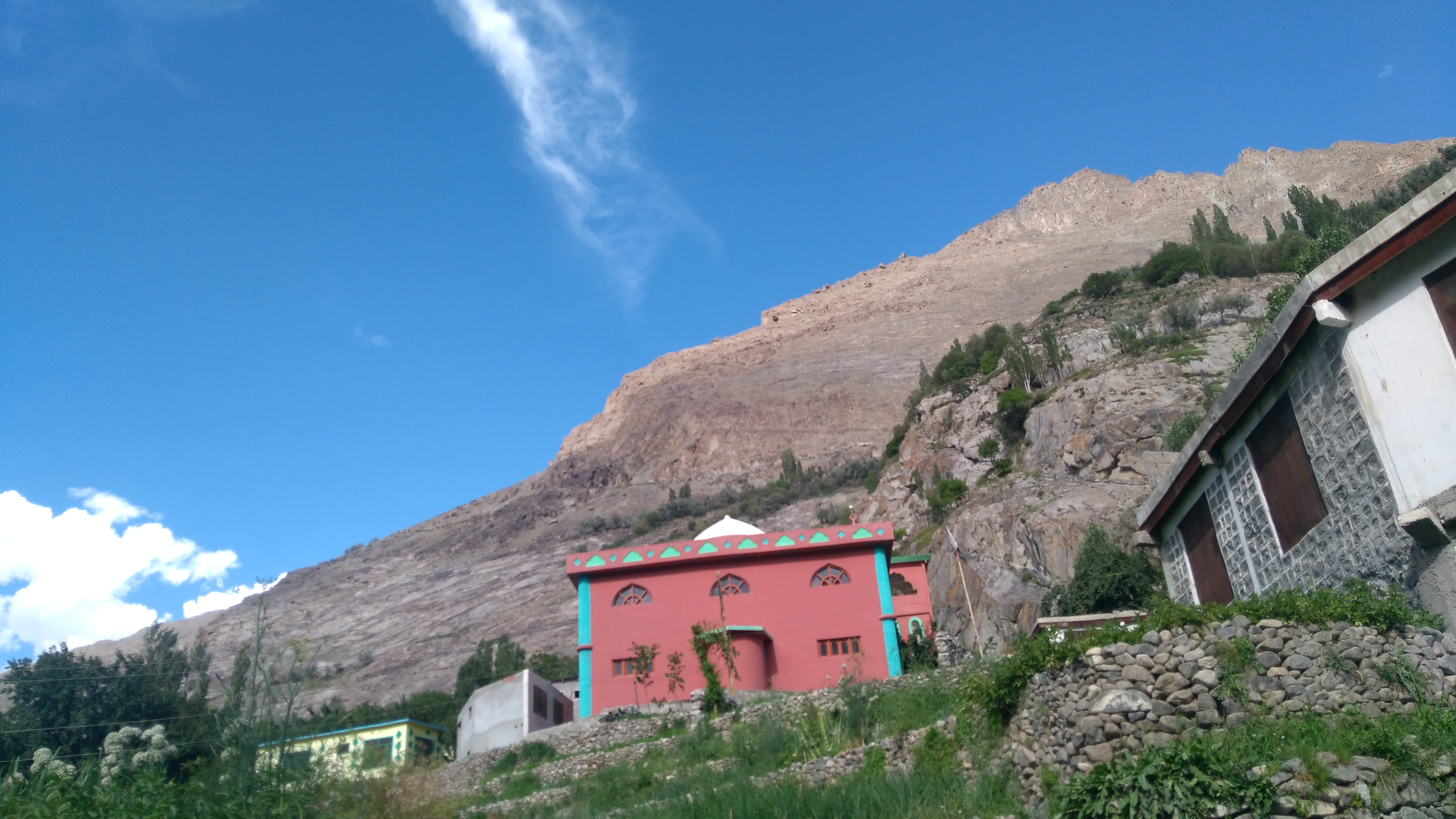 Kharfaq,Kharfaq lake,Kharfaq Ghanche,Kharfak,Khaplu